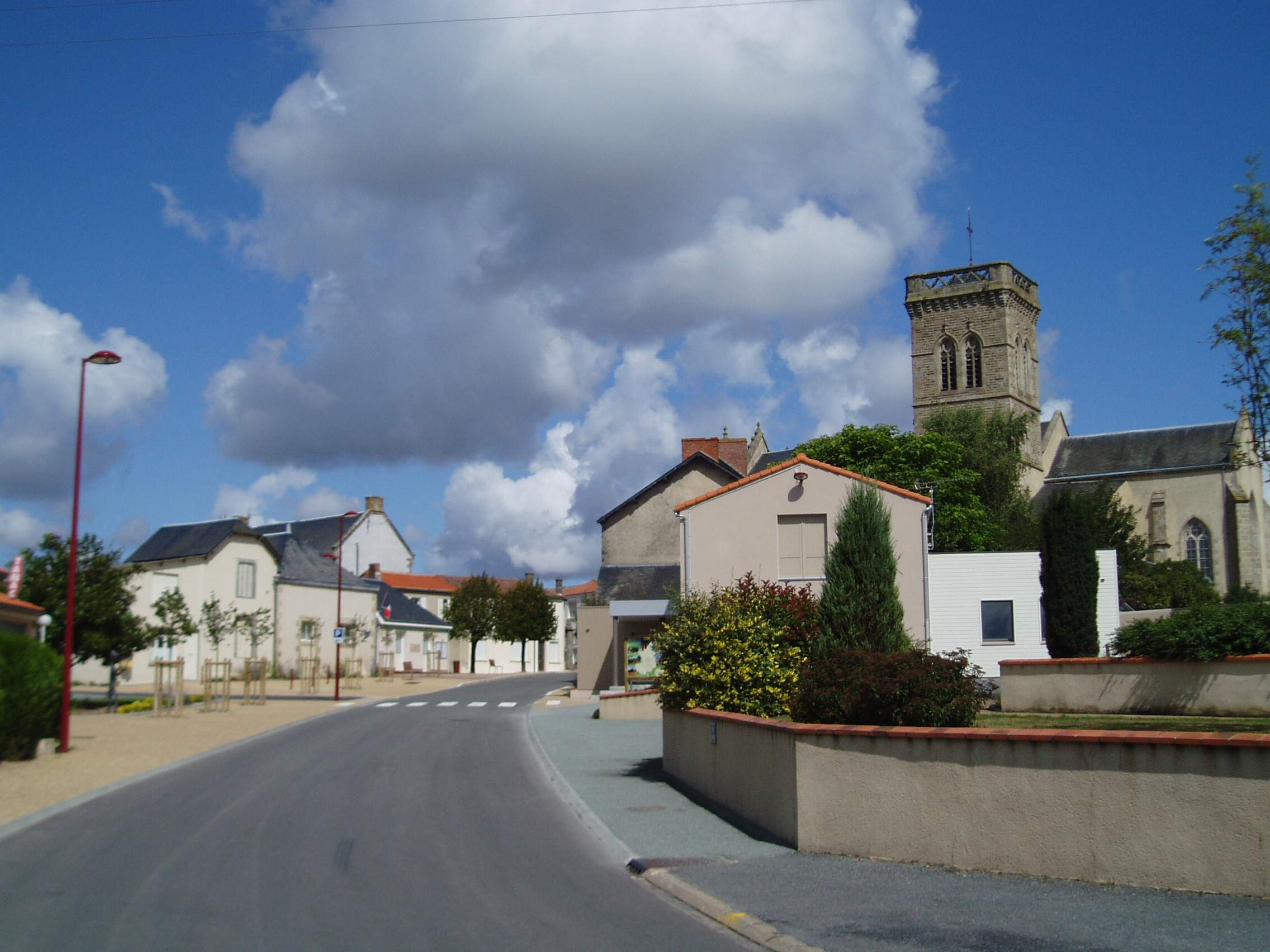 Town of Combrand (France)